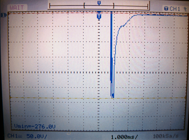 Digital oscilloscope waveform measuring back emf of a discharging solenoid.